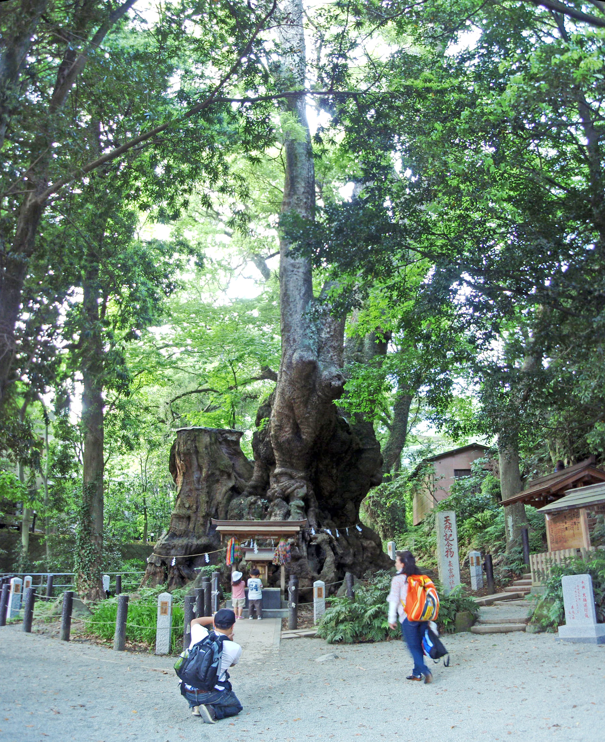 Azusawakejinja-no-Okusu (Grand Cinnamomum camphora tree of Azusawake Shrine) in Kinomiya-jinja, Atami, Shizuoka Prefecture. Japan.